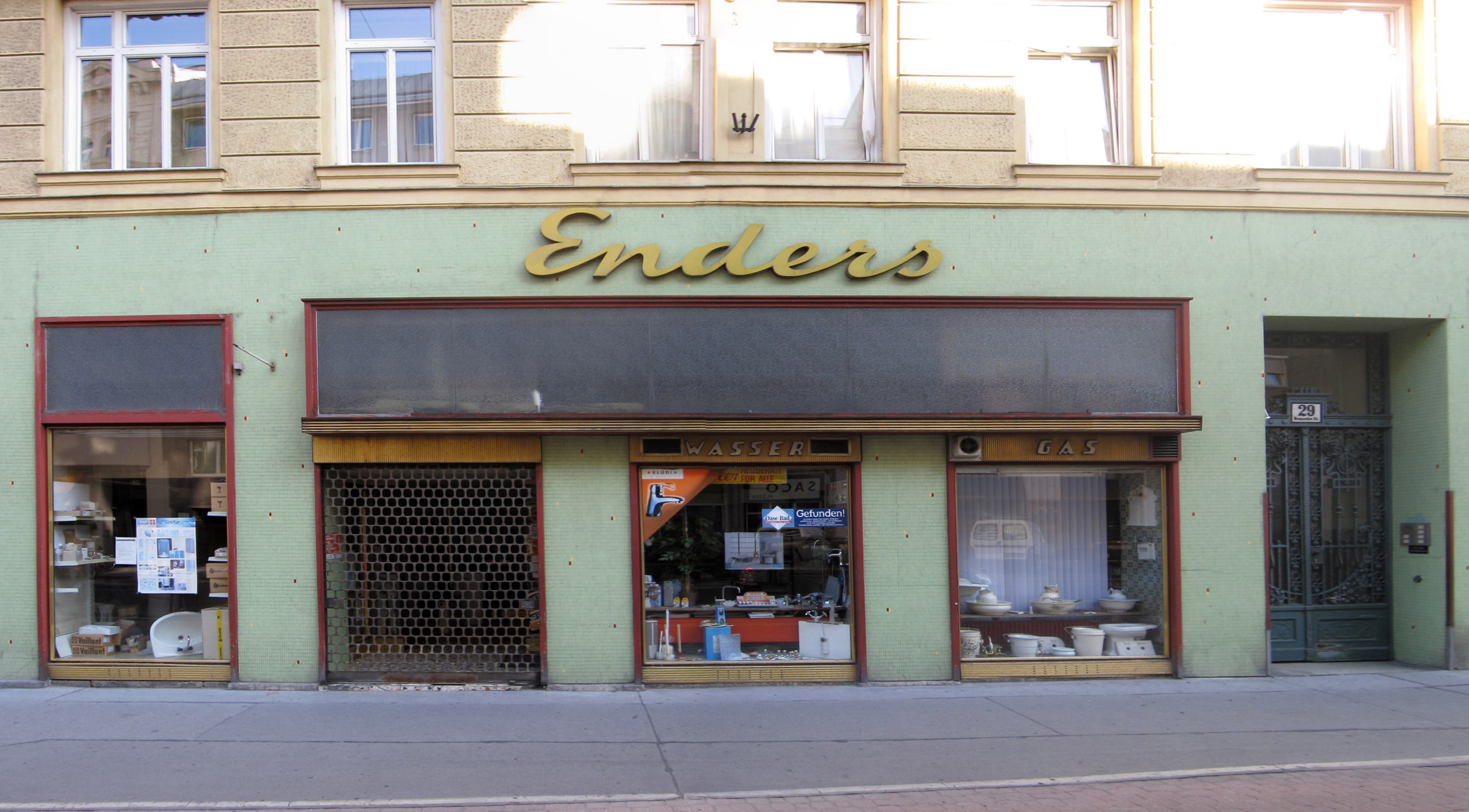 Heinrich Enders in Vienna